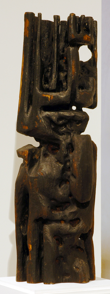 Sculpture by Jan Koblasa, King, wood (1962)